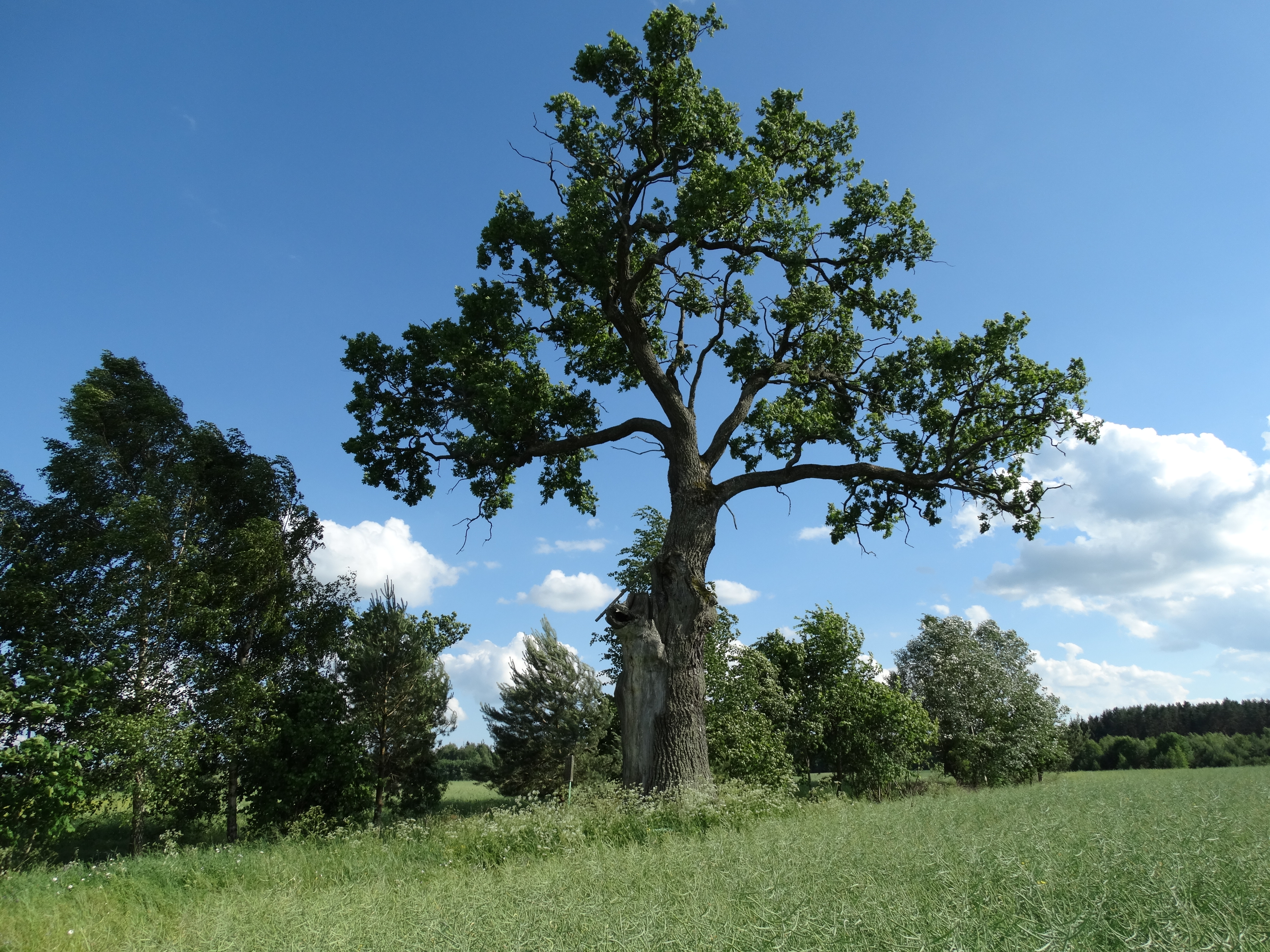 Oak by Lentvorai, Ukmergė district, Lithuania